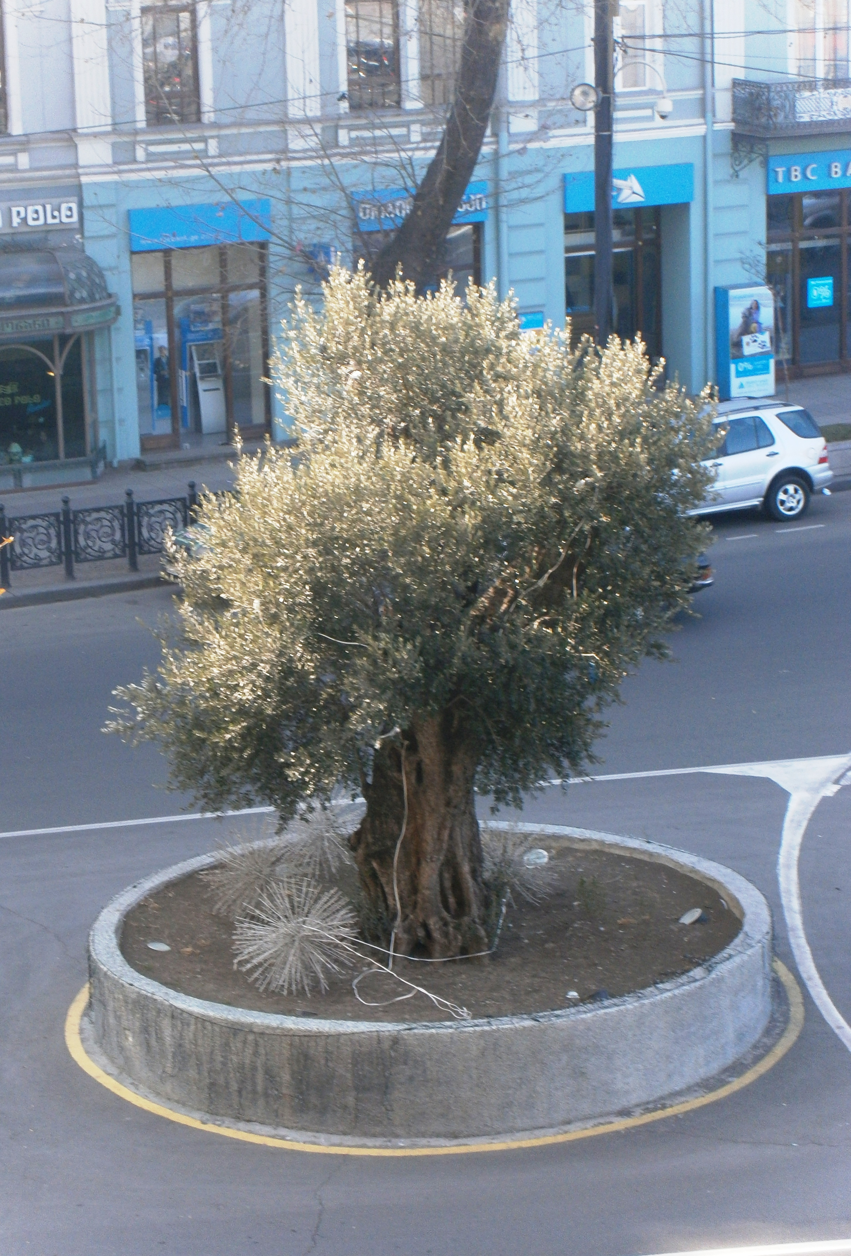 ზეთისხილის ხე, Olive tree